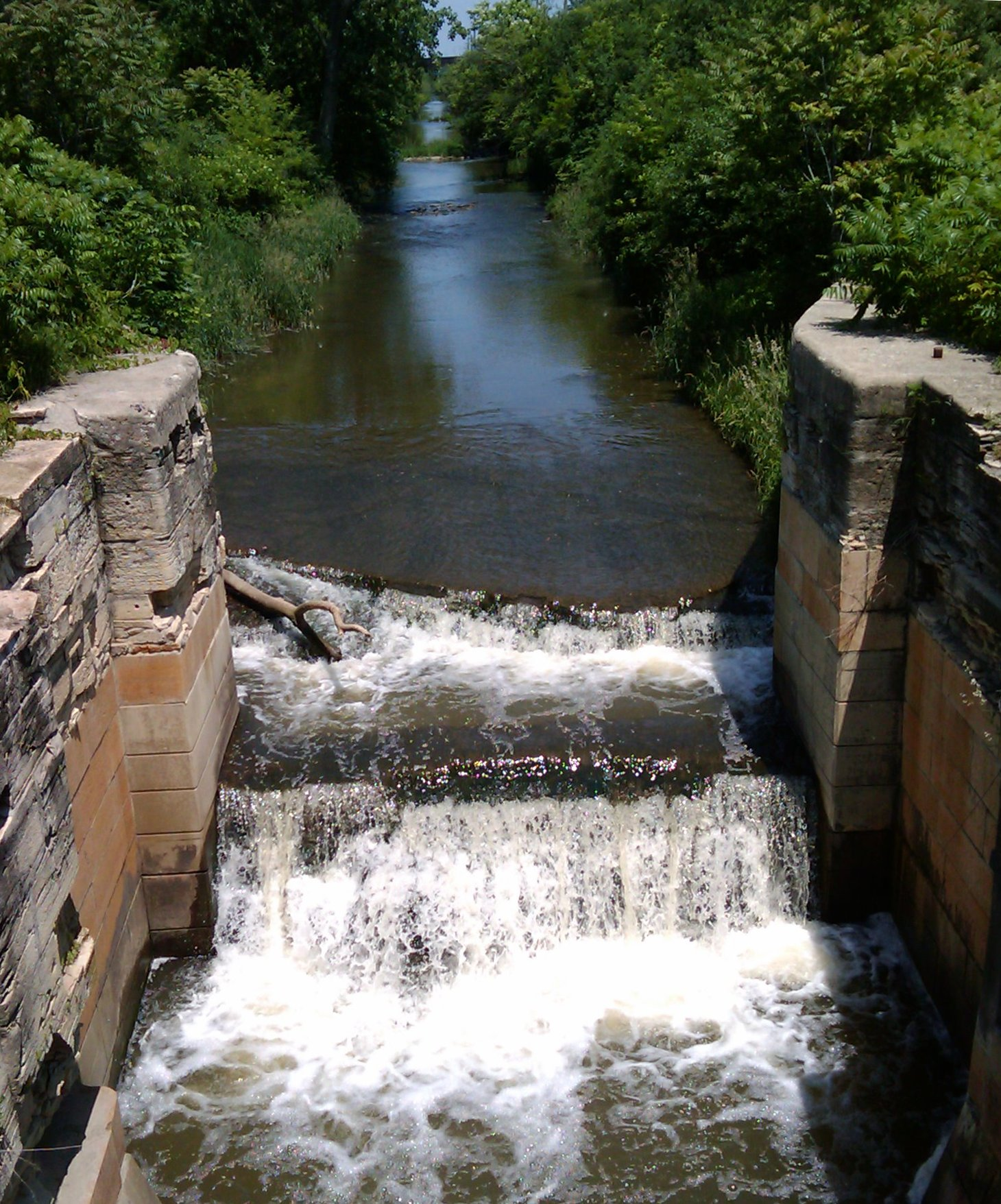 Lock #3 on the I&M canal - South of Lockport, IL